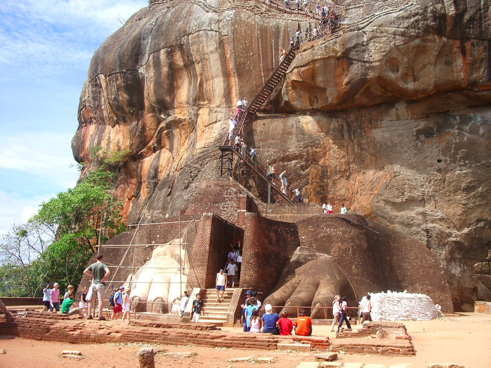 Pujada a Sigiriya; els peus del Buda a meitat del camí.